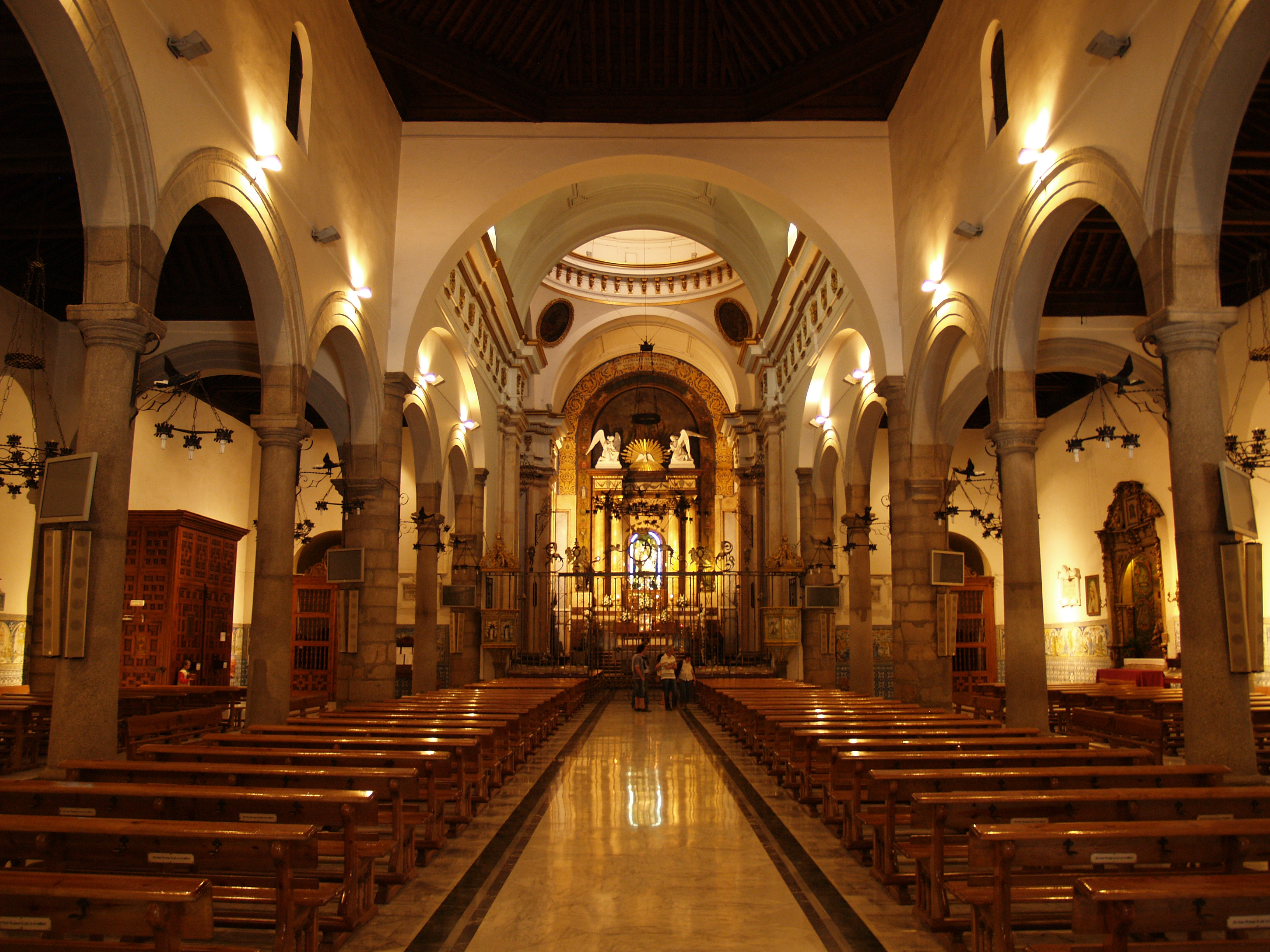 High altar inside the Basilica of Our Lady of Prado